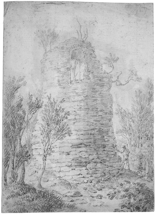 Iburg castle at Bad Driburg, Germany